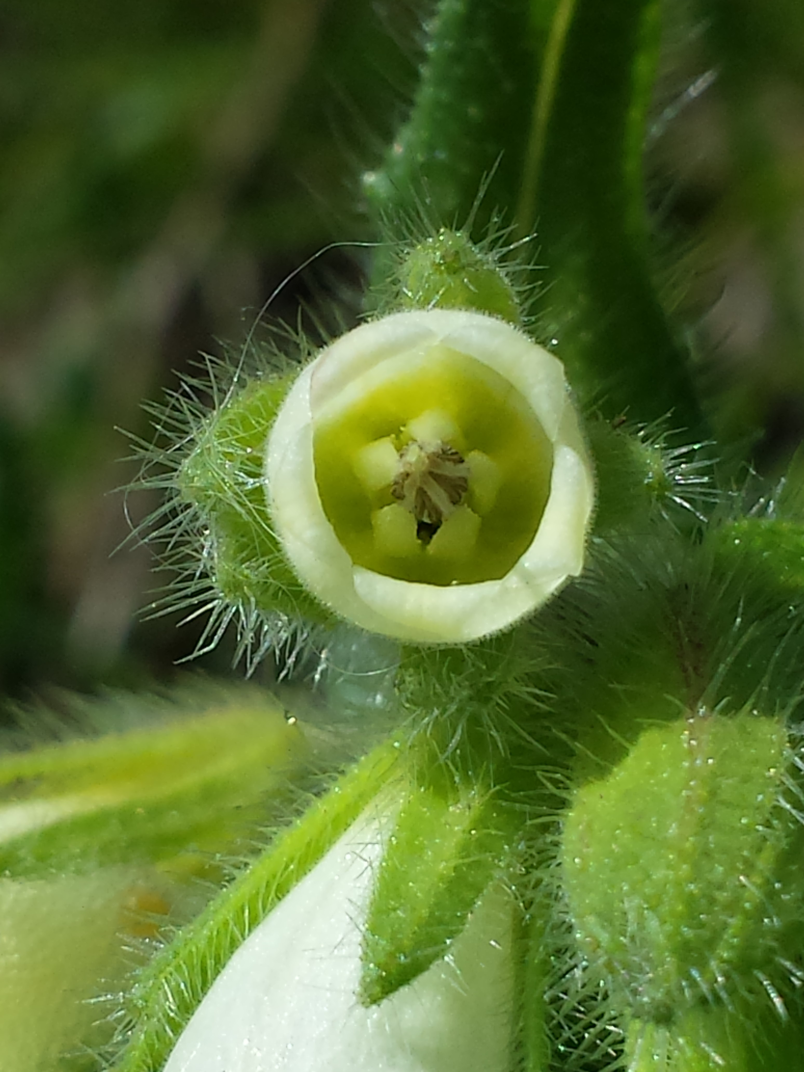 Flower Taxonym: Onosma visianii ss Fischer et al. EfÖLS 2008 ISBN 978-3-85474-187-9 Location: near Gumpoldskirchen, district Mödling, Lower Austria - ca. 300 m a.s.l. Habitat: meadow/border of a wood